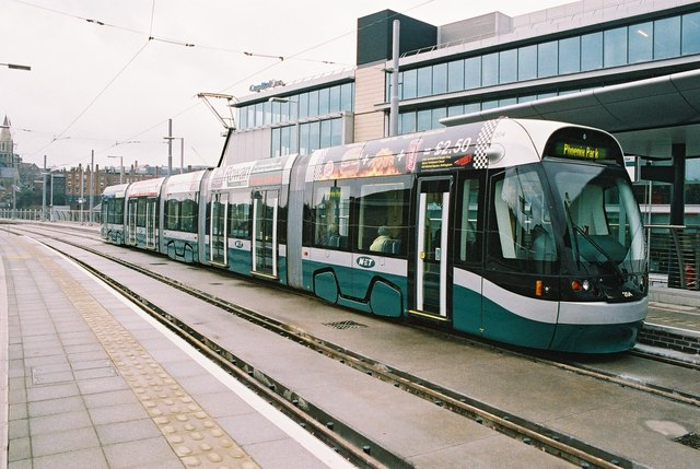 Tram at Station Street terminus in Nottingham. Nottingham's sleek new trams are the pride of the city. Car 204 is seen here at the city terminus in Station Street in the first week of operation.